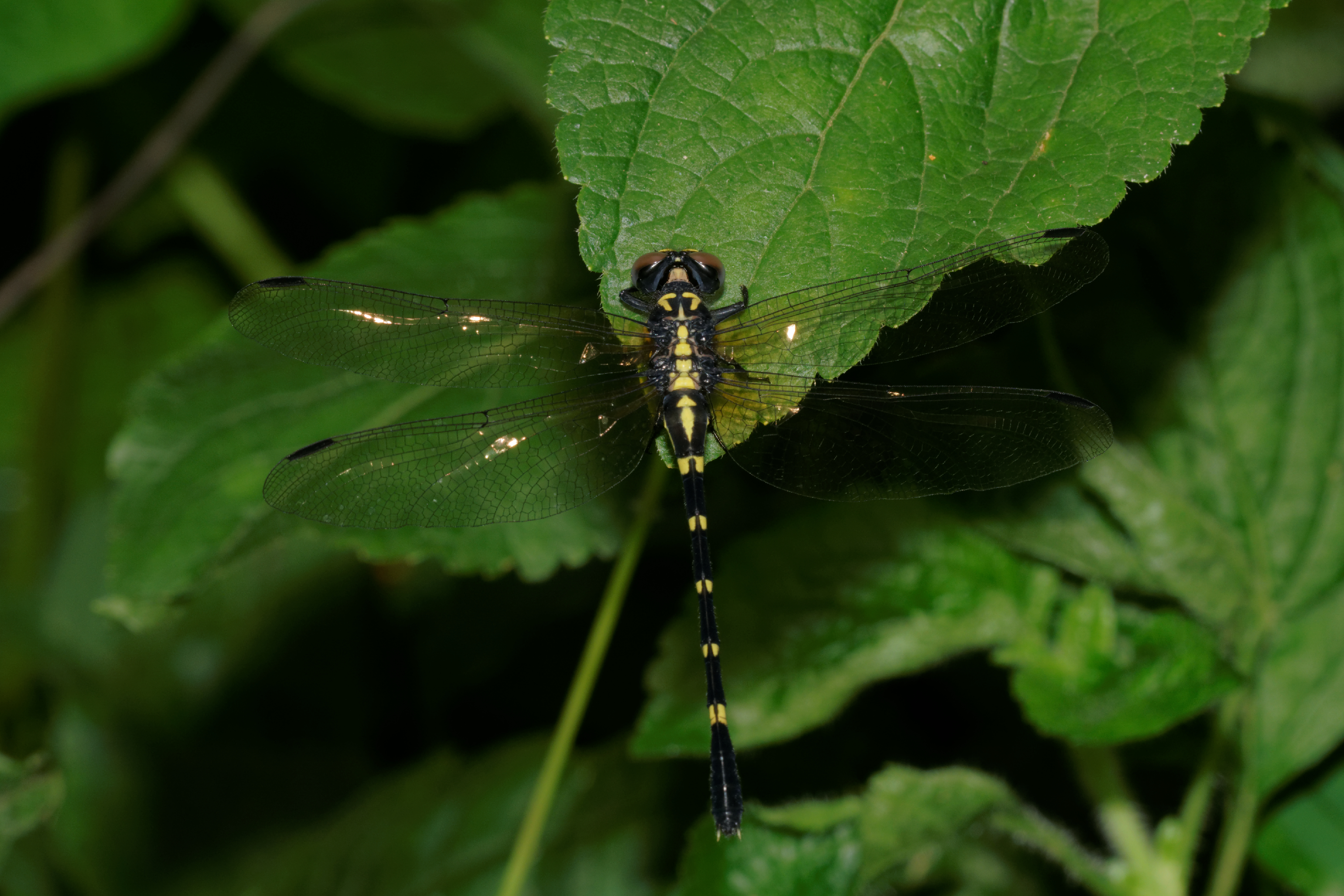 Onychogomphus nilgiriensis, Nilgiri Clawtail, is a dragonfly in the family Gomphidae endemic to hill streams of India. This subspecies Onychogomphus nilgiriensis annaimallaicus could actually qualify for a species status, however further taxonomic research is required.